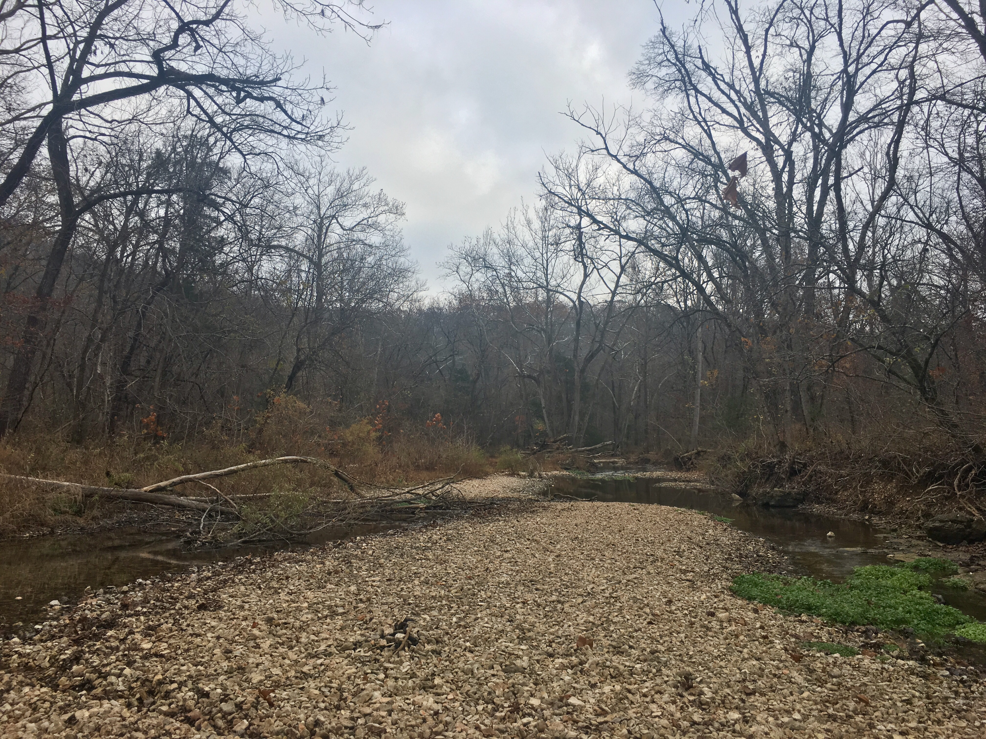 Woods Fork Stream in late autumn at Busiek State Forest. A low stream with exposed gravel bars and fallen trees, surrounded by bare trees.